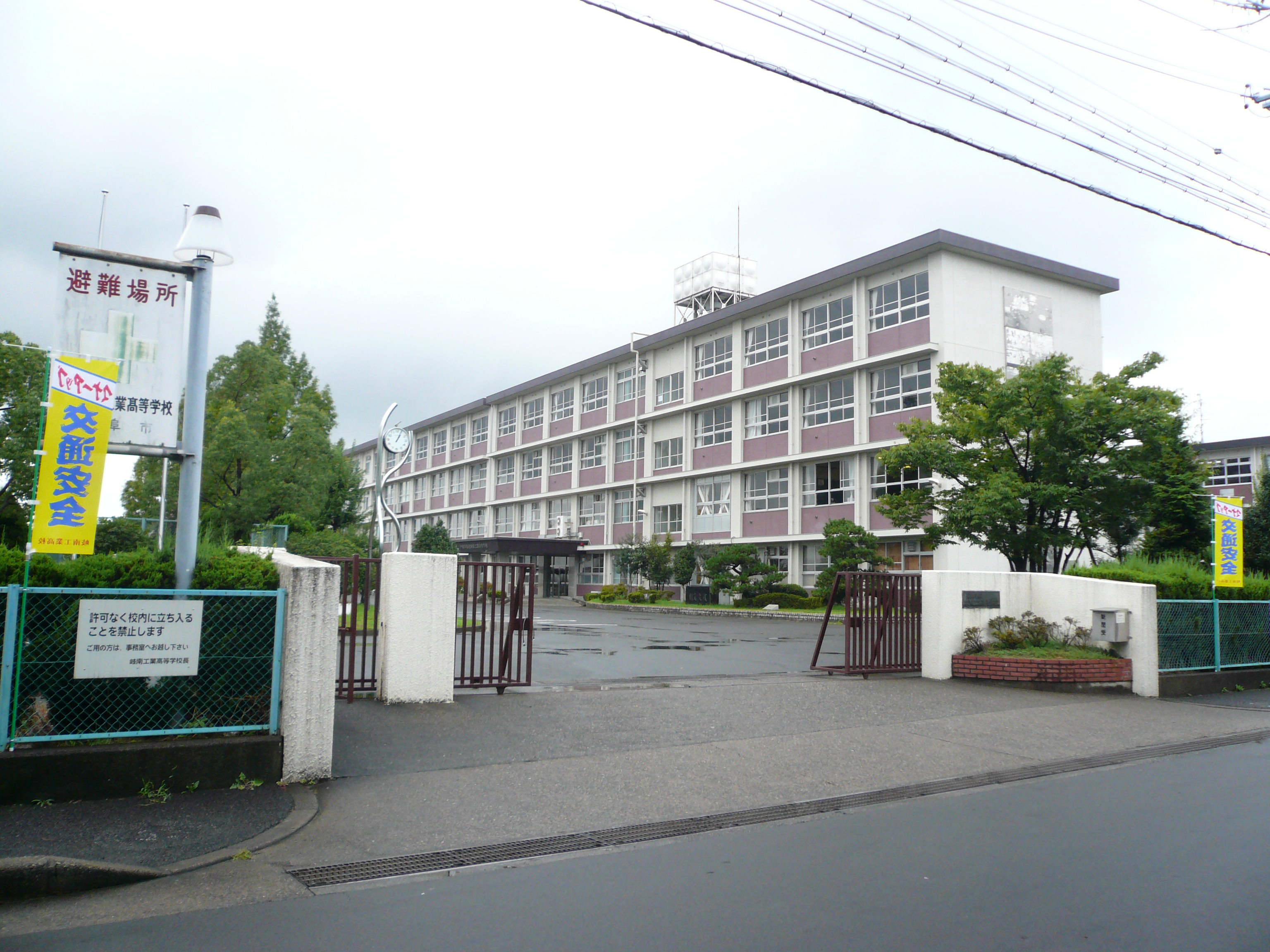 Ginan Techinical HighSchool（岐阜県立岐南工業高等学校）,Gifu,Gifu,Japan（岐阜県岐阜市）で撮影。全景。